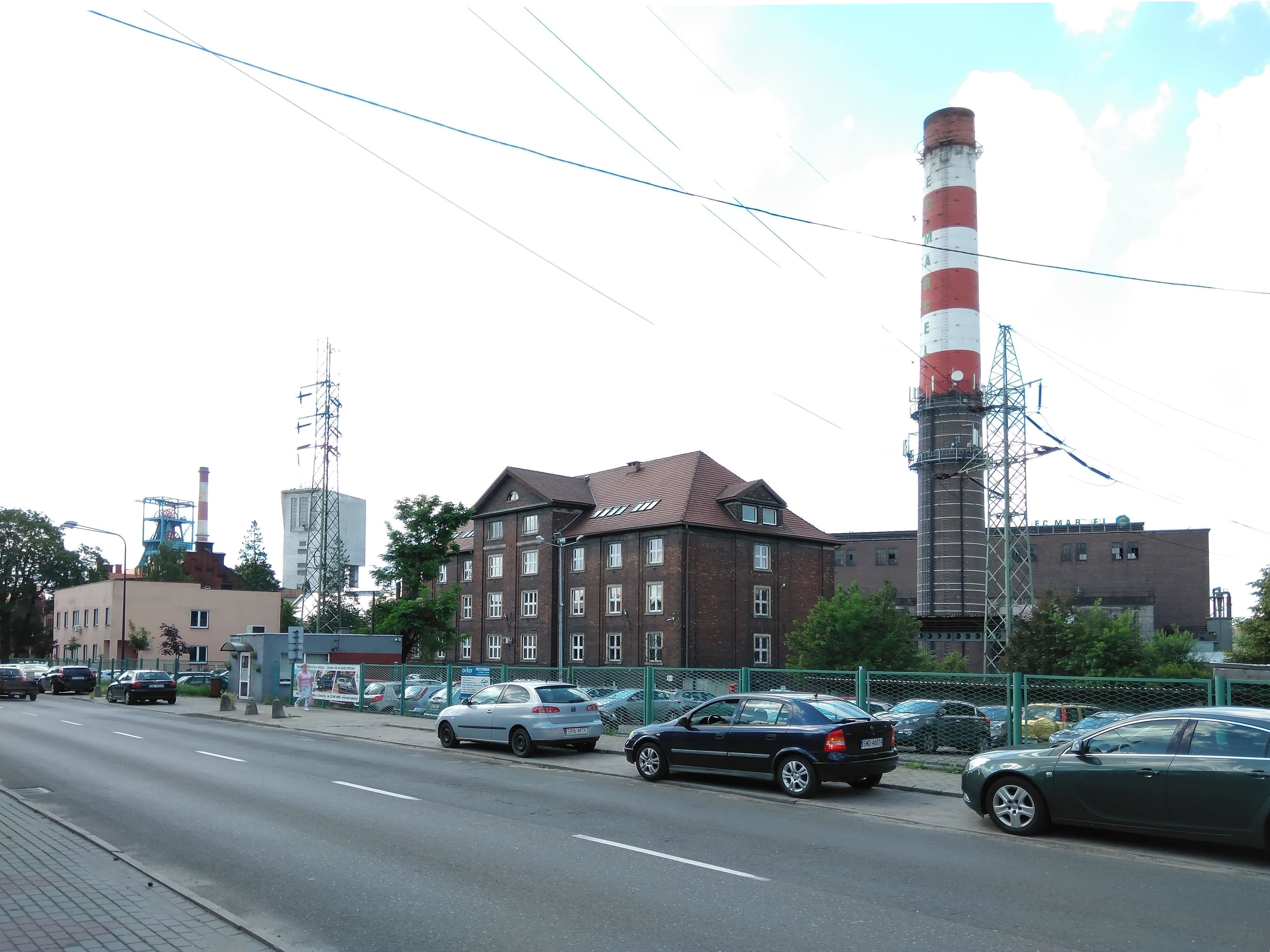 Marcel Coal Mine in Radlin-Biertułtowy, Upper Silesia, Poland